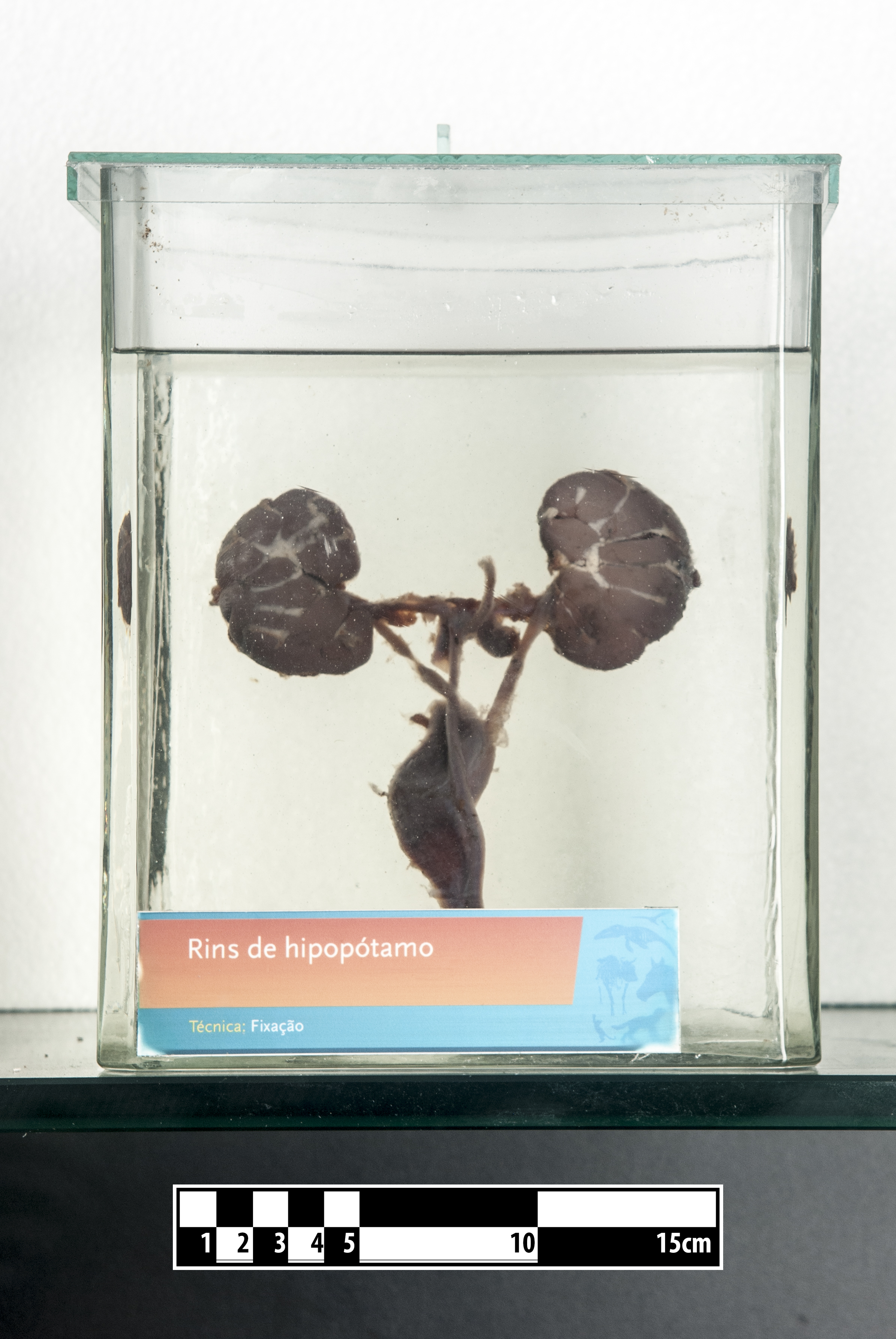 Hippo kidneys. Hippopotamus amphibius Technique of formalin fixation on display at the Museum of Veterinary Anatomy, FMVZ USP. This file was published as the result of a partnership between the Museum of Veterinary Anatomy FMVZ USP, the RIDC NeuroMat and the Wikimedia Community User Group Brasil. This GLAM project is reported.